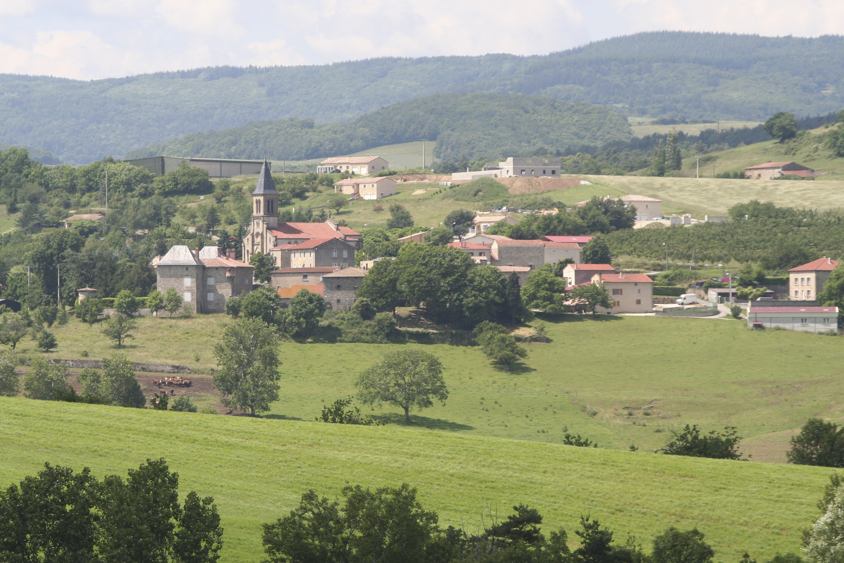 the village of Saint-Sylvestre